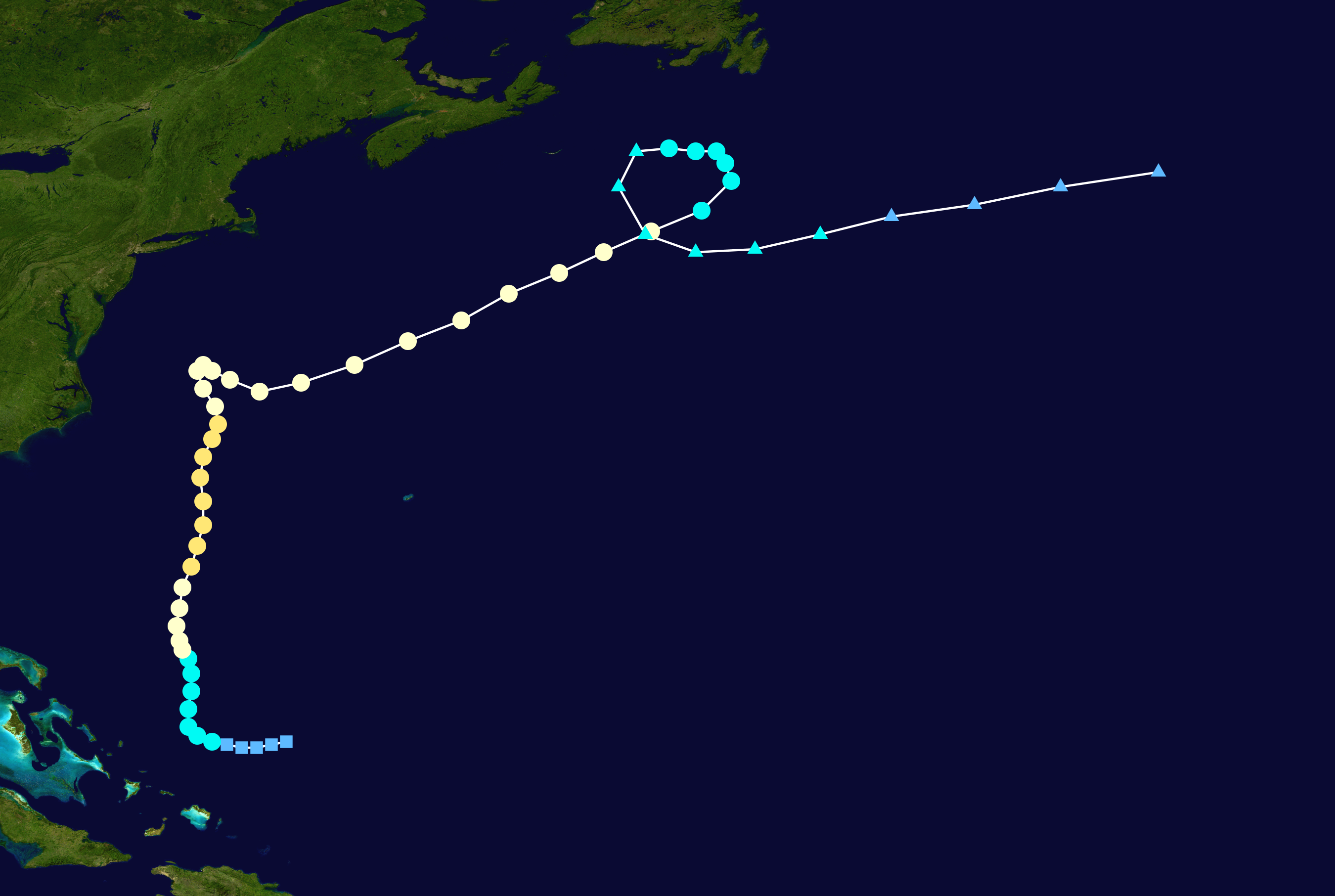 Hurricane Josephine (1984) track. Uses the color scheme from the Saffir-Simpson Hurricane Scale.